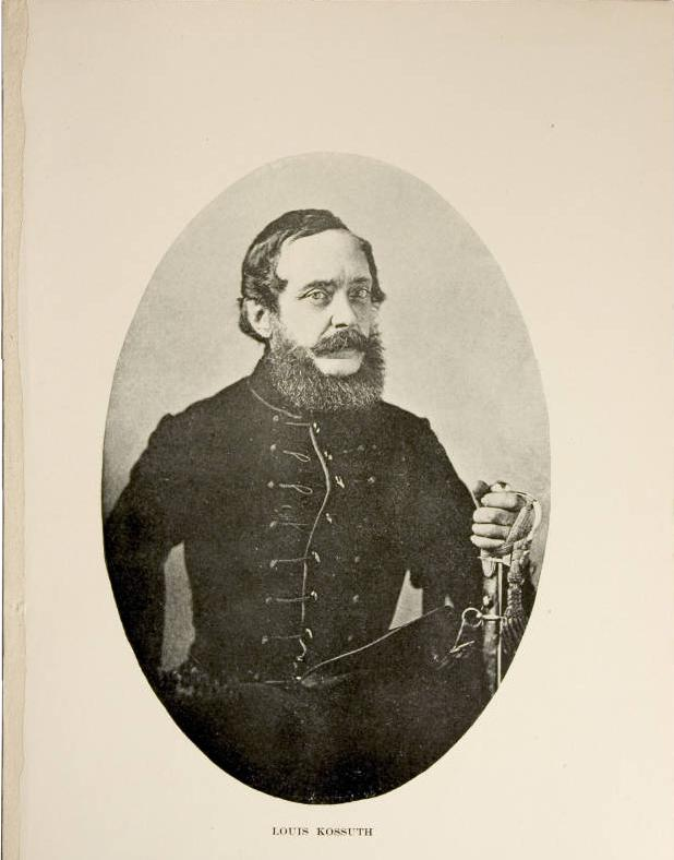 Louis Kossuth